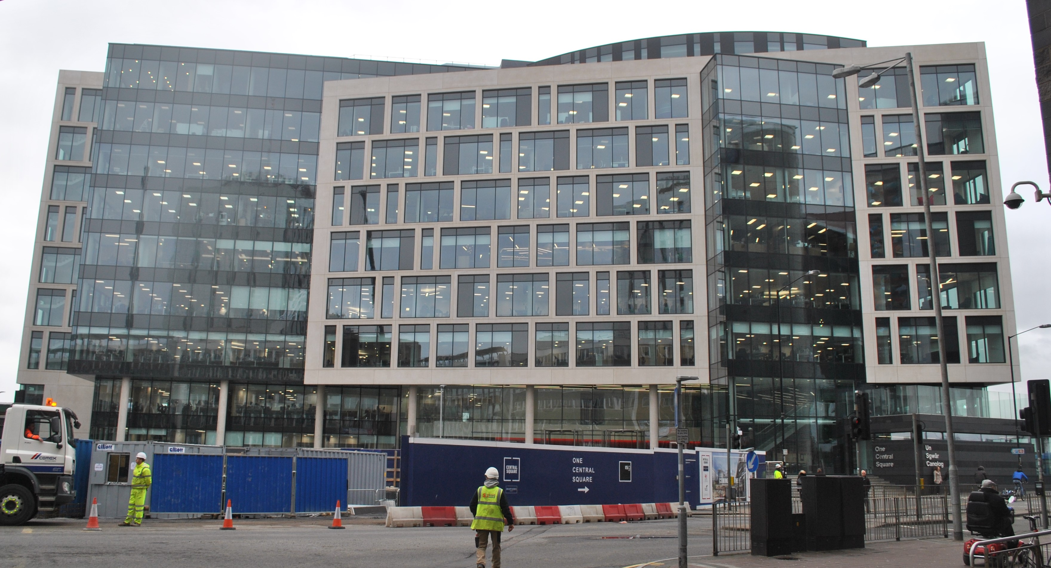 One Central Square, Cardiff